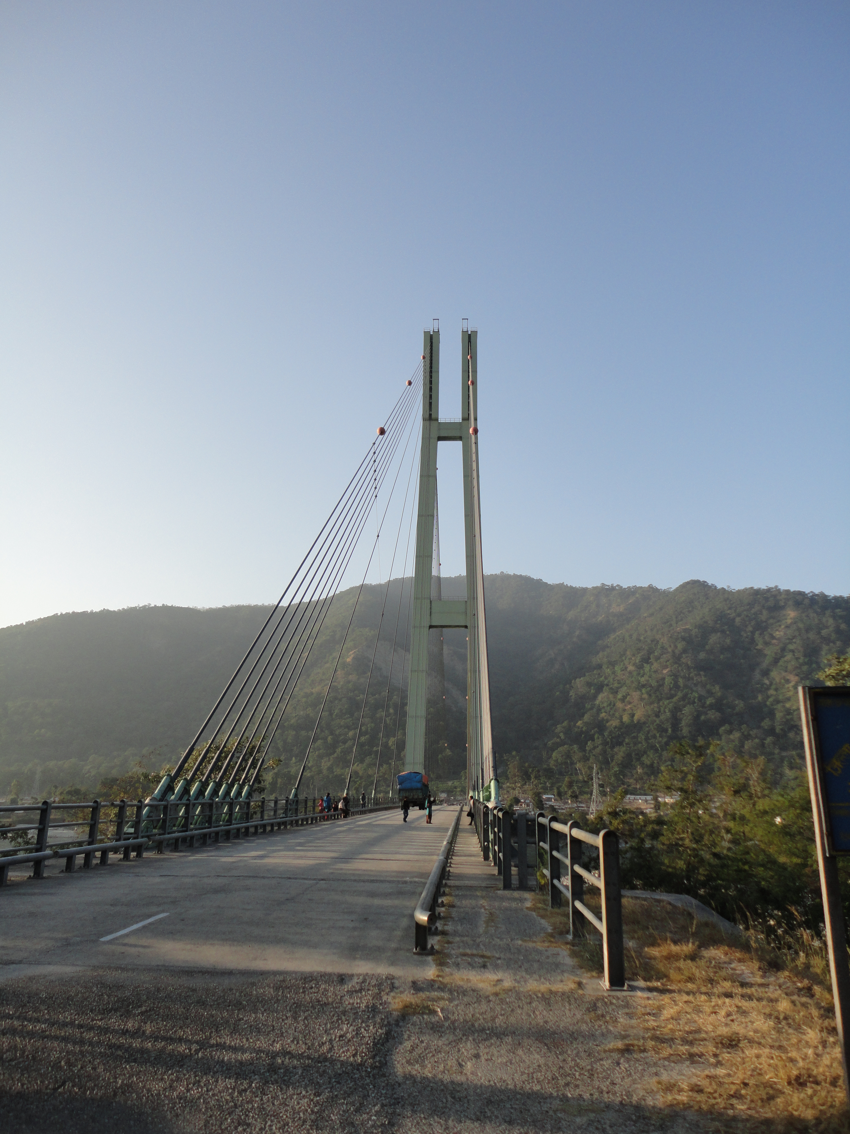 Cable-stayed_bridge over the Karnali River in Chisapani, western Nepal